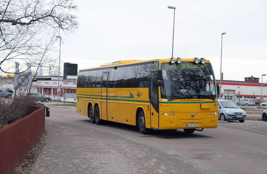 Volvo 9700 6x2 coach (#6023) with Volvo B12M chassis in Kristinehamn, Sweden. Värmlandstrafik operator.